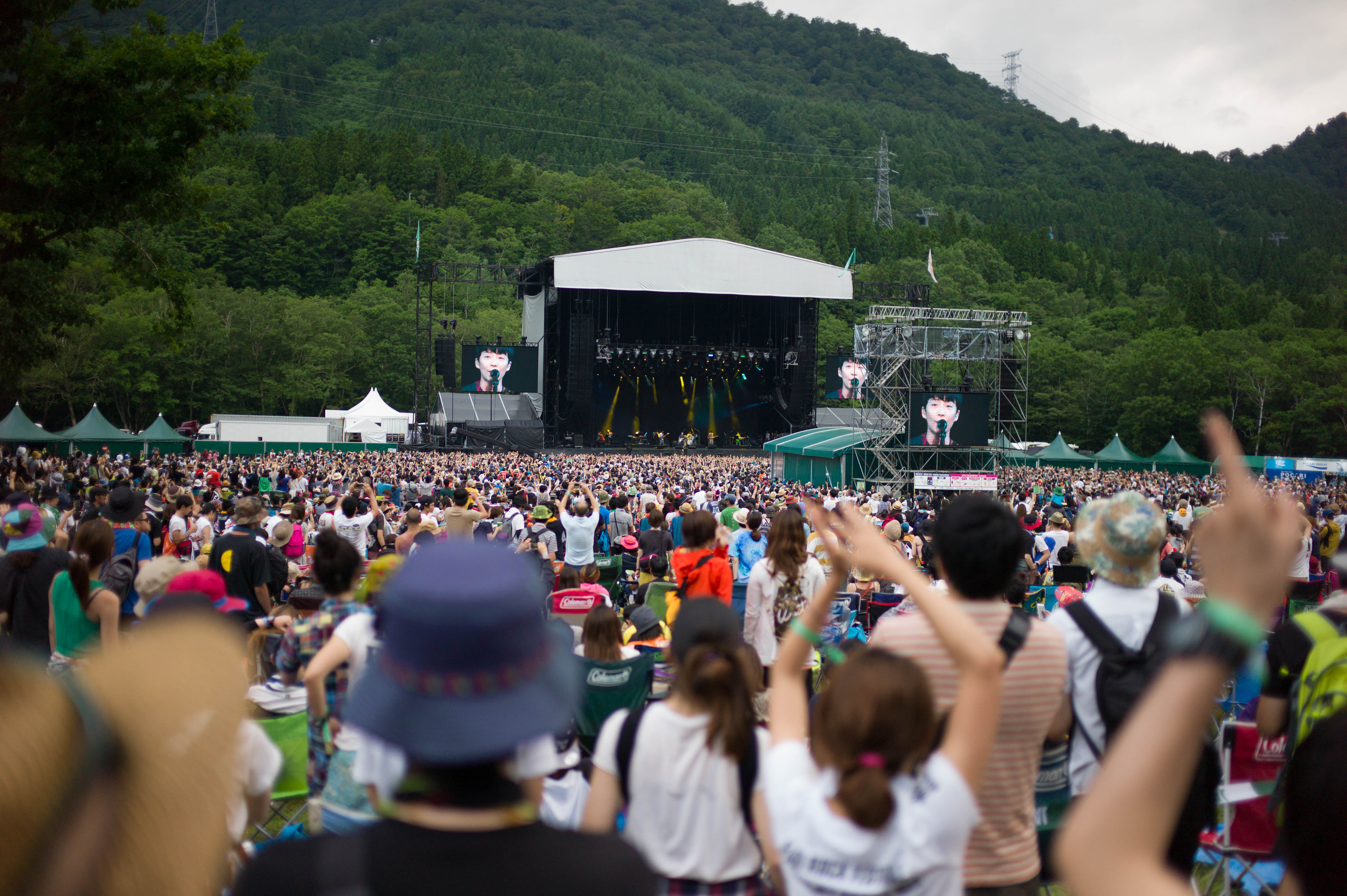 Gen Hoshino at the Fuji Rock Festival 2015